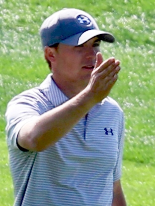 Spieth and Owen at the AT&T Championship, February 2015